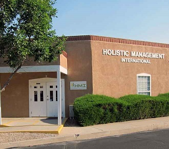 Holistic Management International headquarters